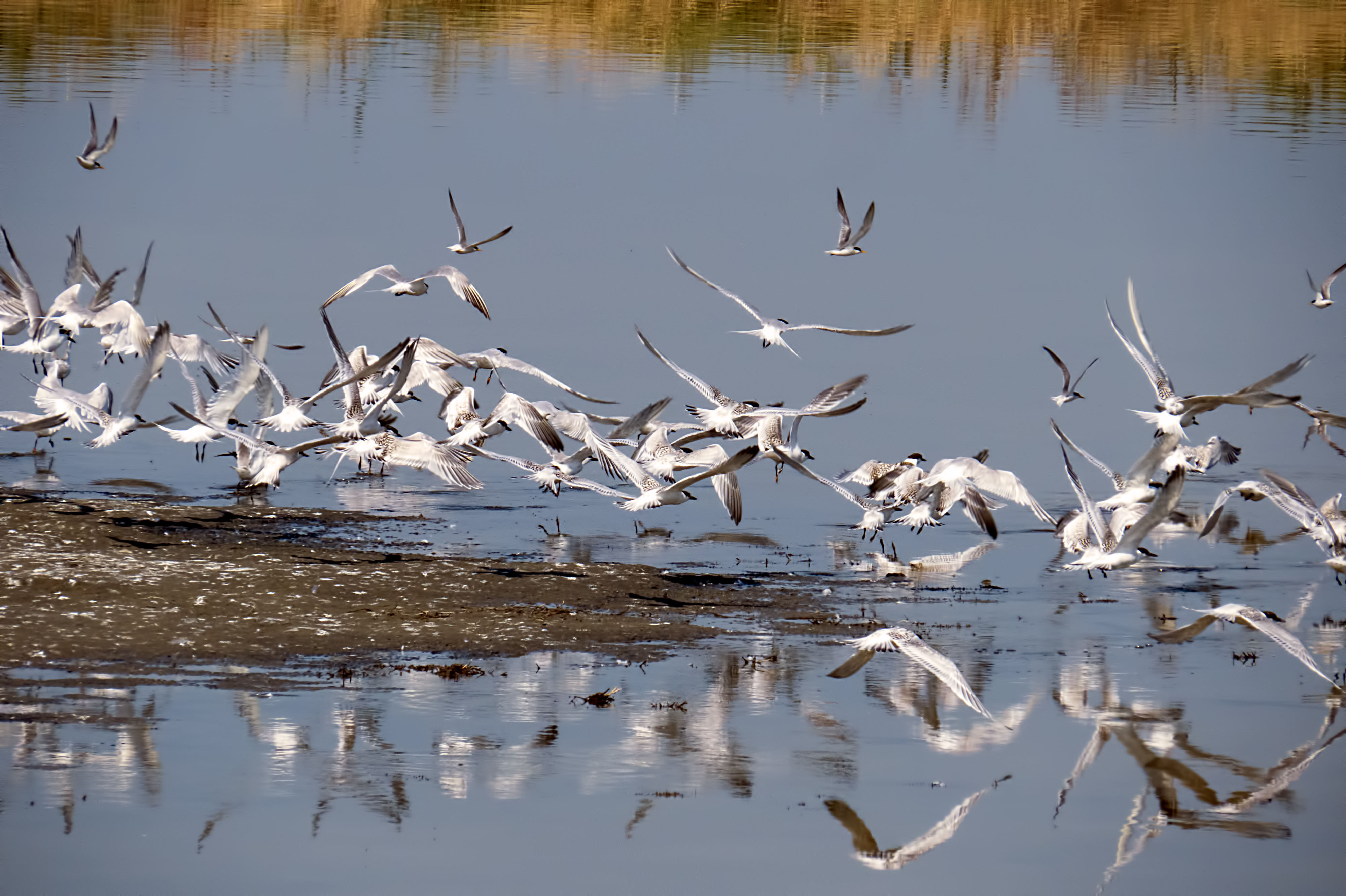 This is a photography of Natura 2000 protected area with ID GR1220002